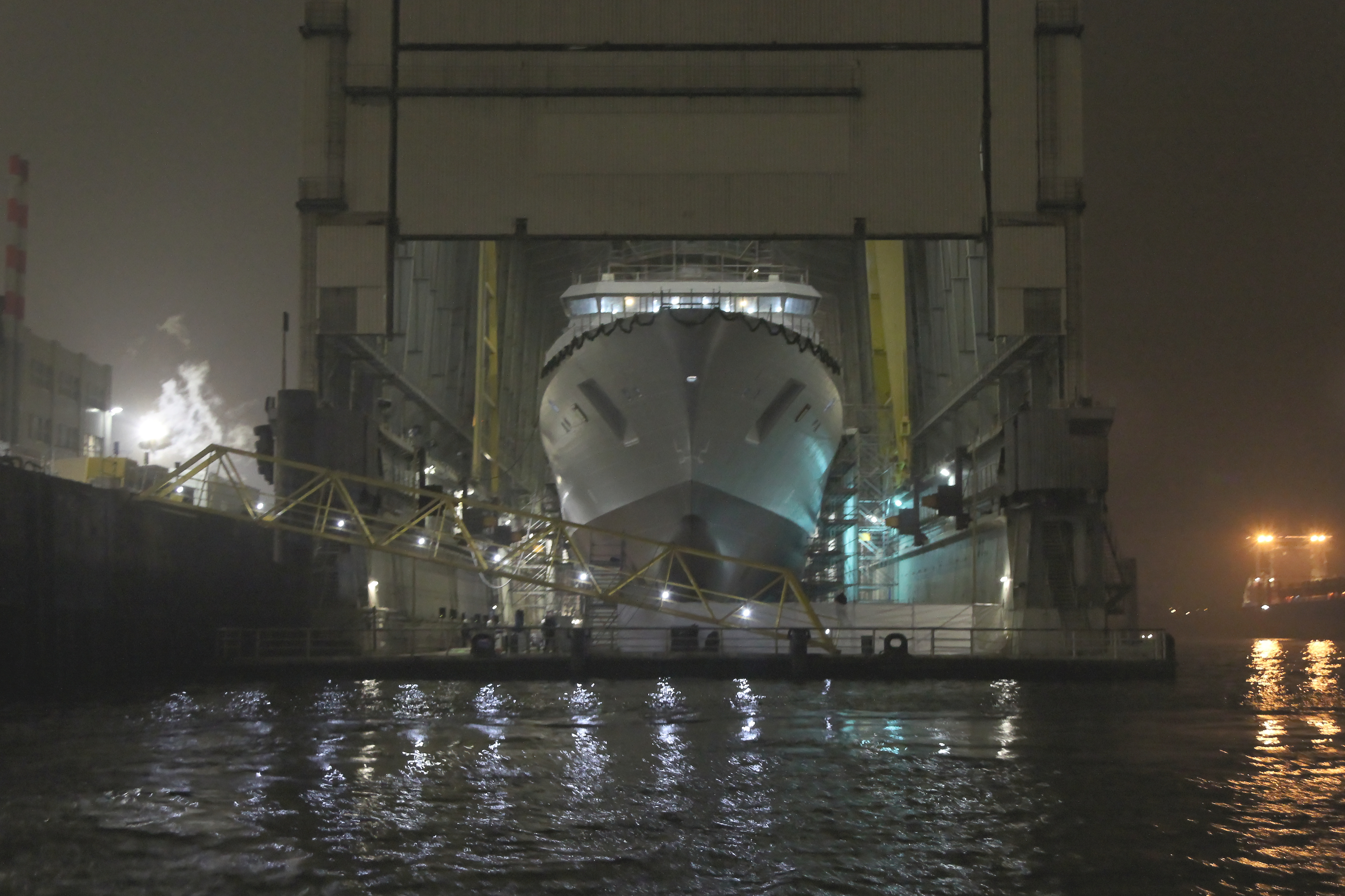 German frigate F222 Baden-Württemberg during build at Blohm&Voss in Hamburg